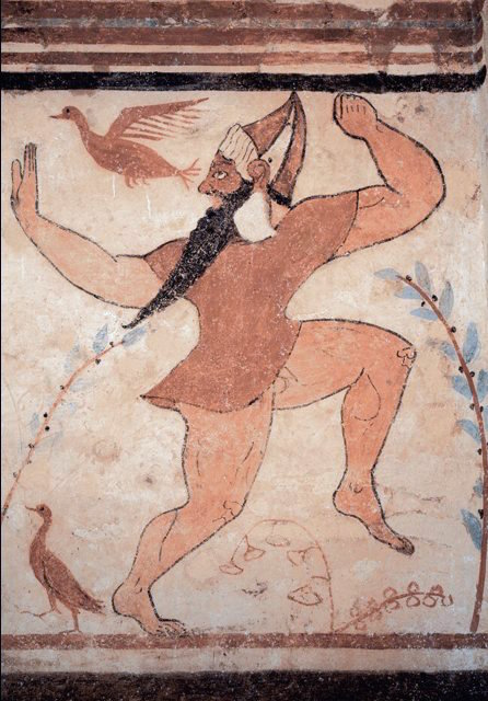 Phersu, from the painted walls of the tomb of the Augurs at Tarquinia, 525-500 BCE, Etruscan